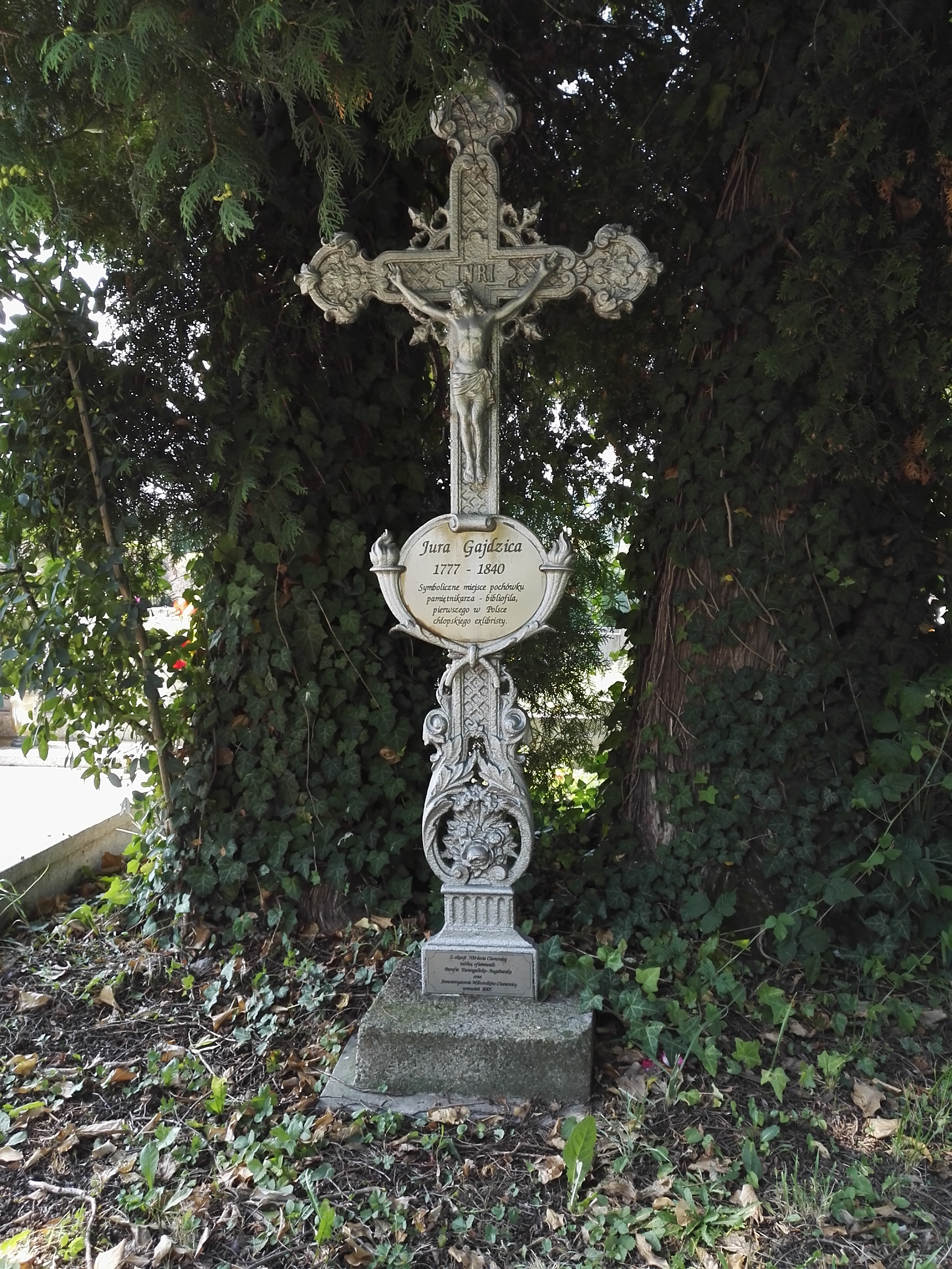 Cisownica. Lutheran cemetery. Cenotaph to Jura Gajdzica (1777-1840). Erected in 2005.